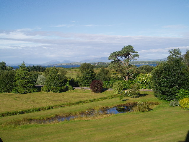 Eriska looking South West from Hotel.